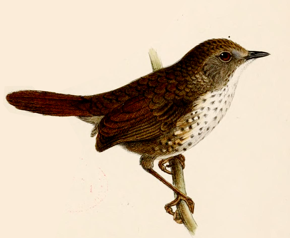 Chin Hills Wren-Babbler Spelaeornis oatesi (Rippon, 1904)